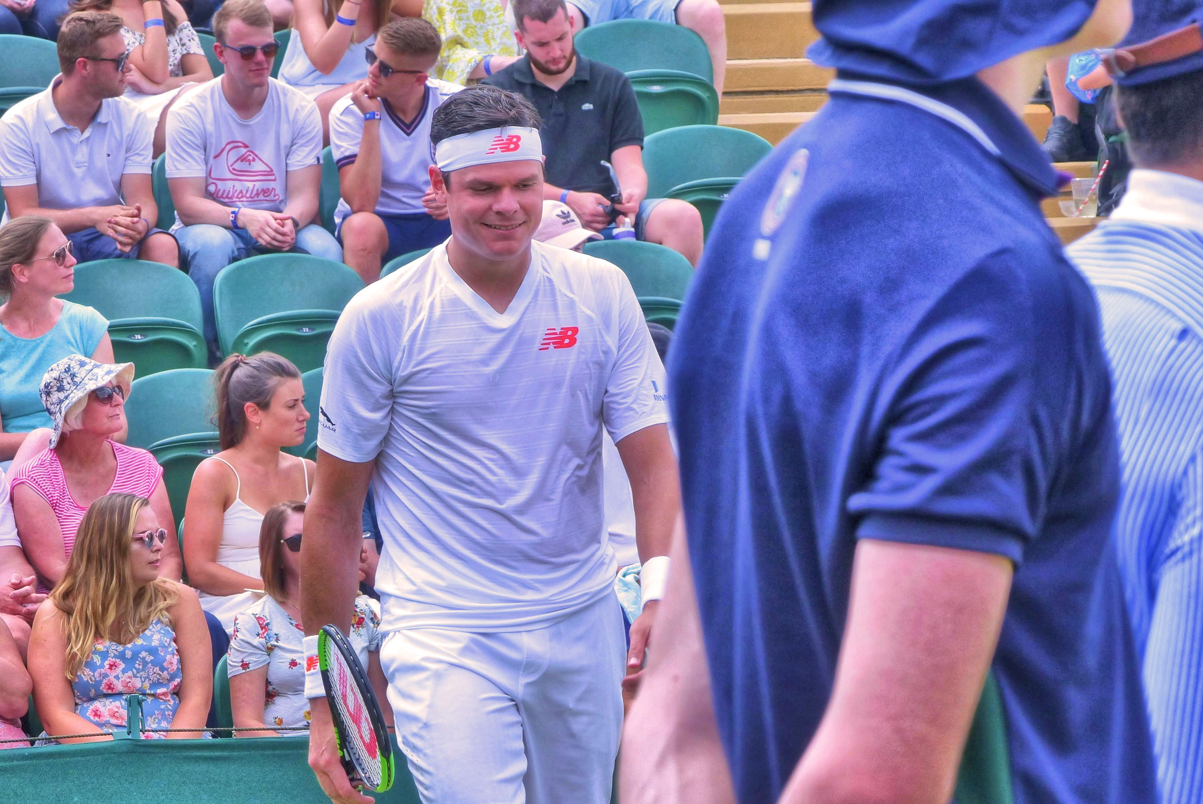 Milos Raonic at Wimbledon tennis July 2018